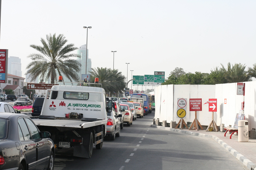 Traffic near Dubai Airport in Deira.